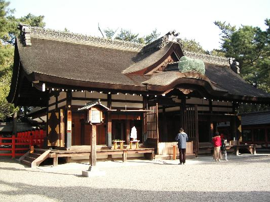 Main shrine at the Sumiyoshi shrine in Osaka